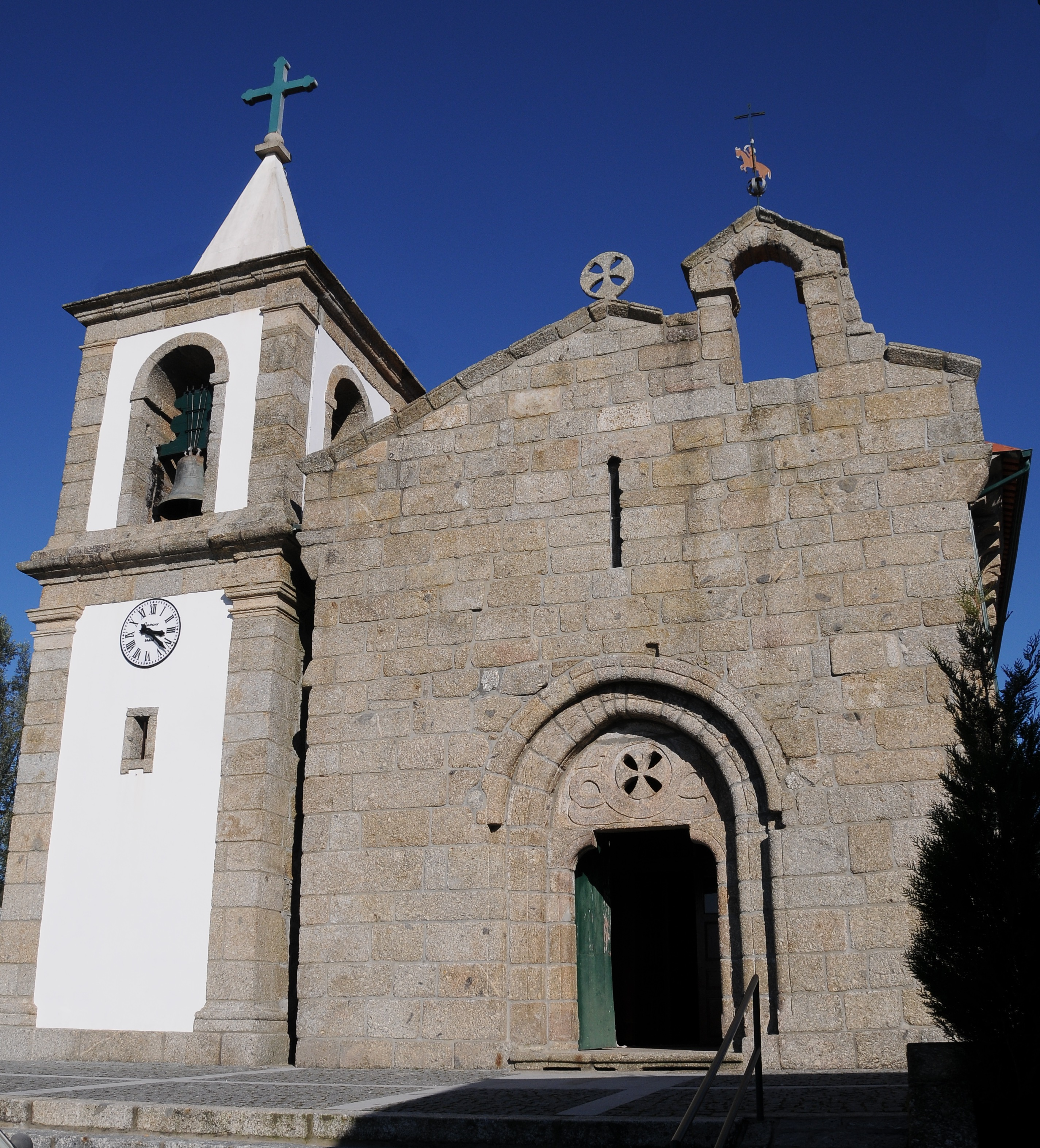 Verim Church in Povoa de Lanhoso, Portugal